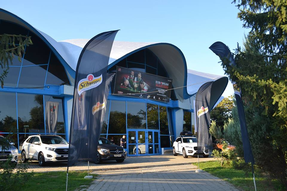 Bucharest: Globus Circus (Circul Globus) Home of the European Masters or European Open (snooker) since 2016.